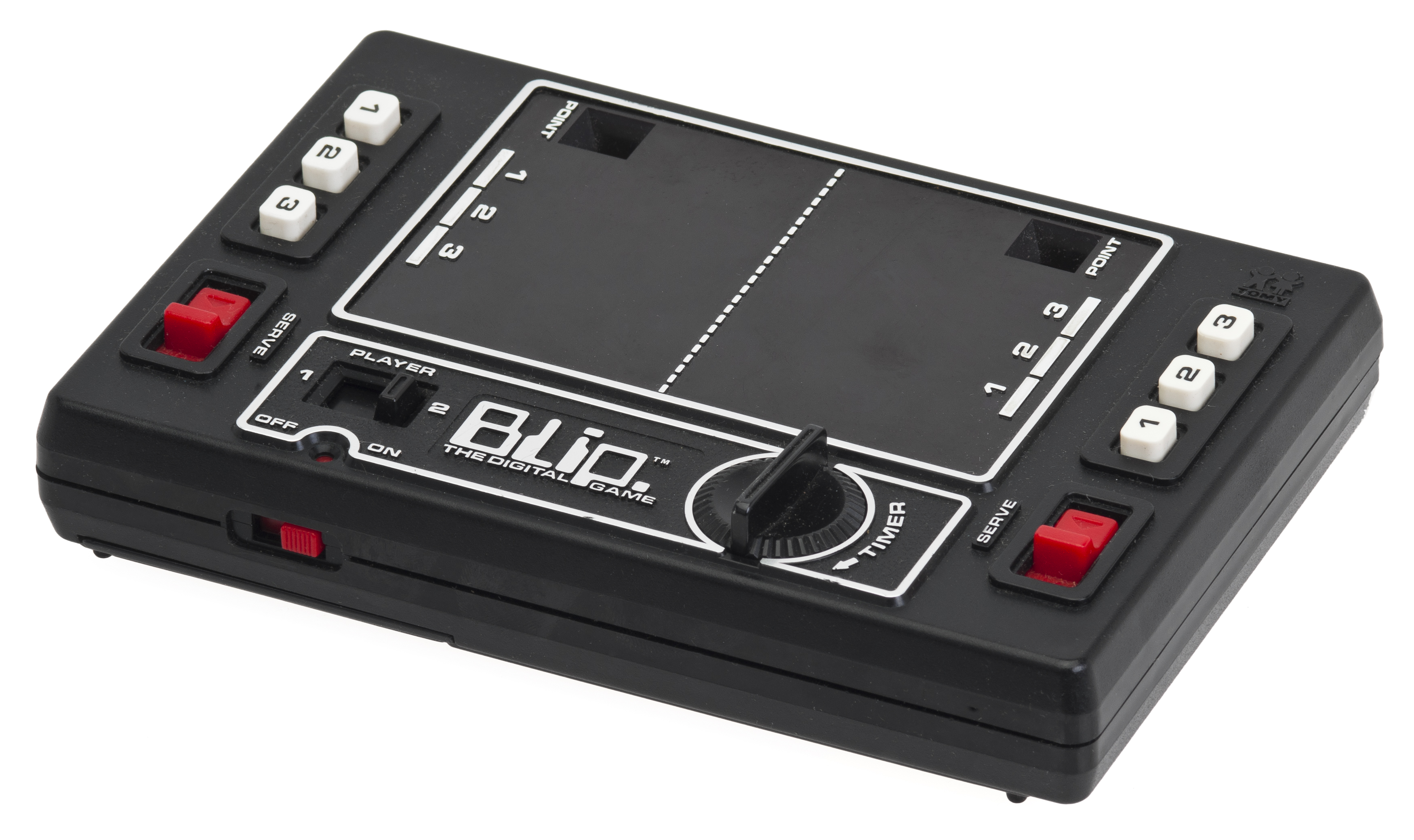 The TOMY Blip, a simple handheld version of Pong used red LEDs to simulate the ball bouncing back and forth.